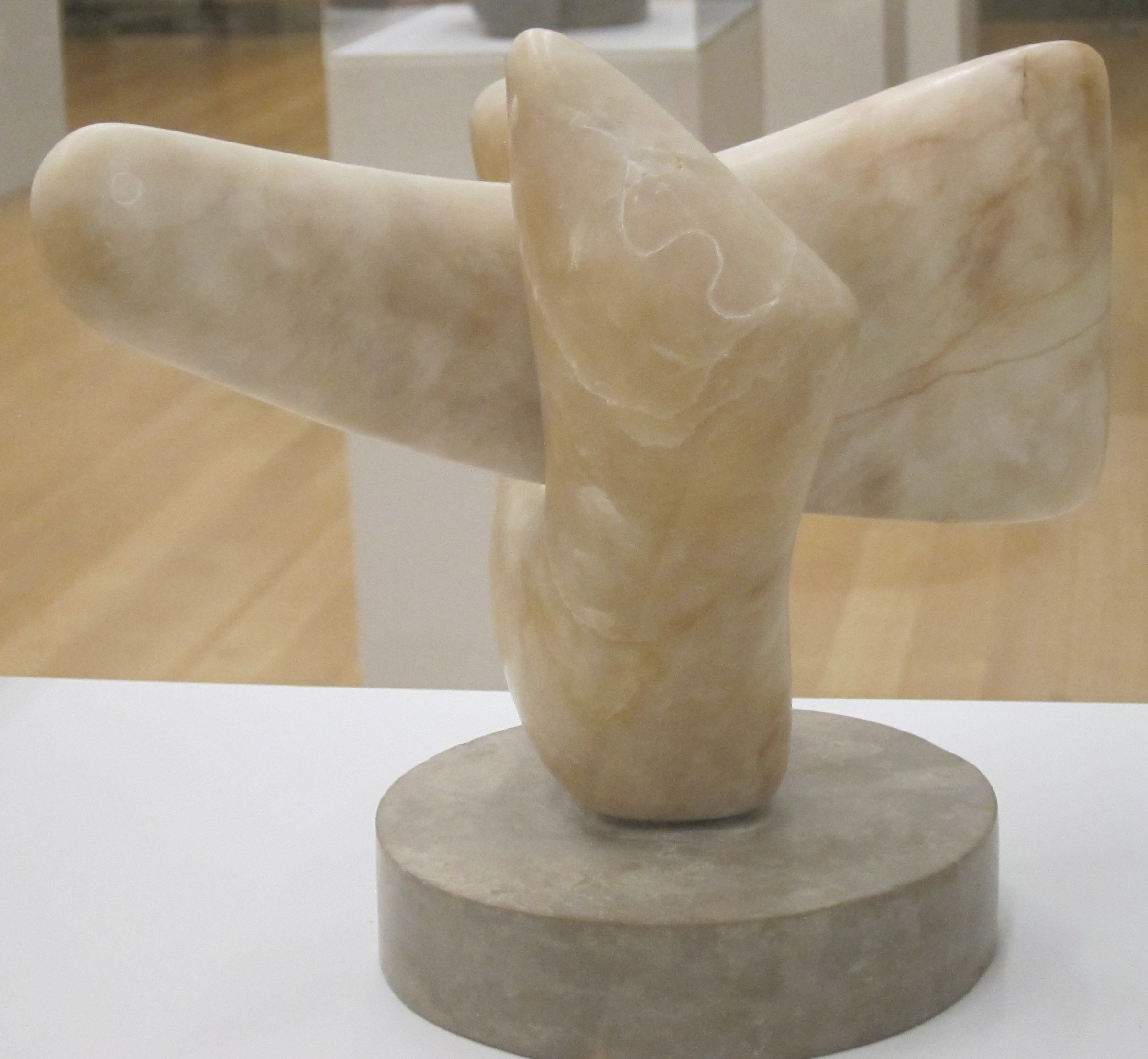 Two Forms, alabaster and limestone sculpture by Barbara Hepworth, 1933, Tate Britain